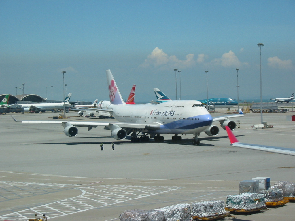 A China Airlines Boeing 747-400 taxiing at Hong Kong International Airport.